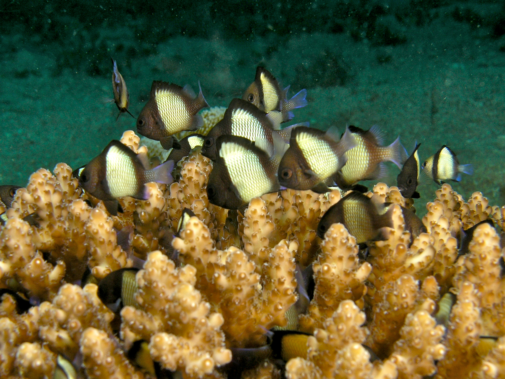 Dascyllus reticulatus (Reticulated dascyllus) in Acropora loripes (Hard coral)